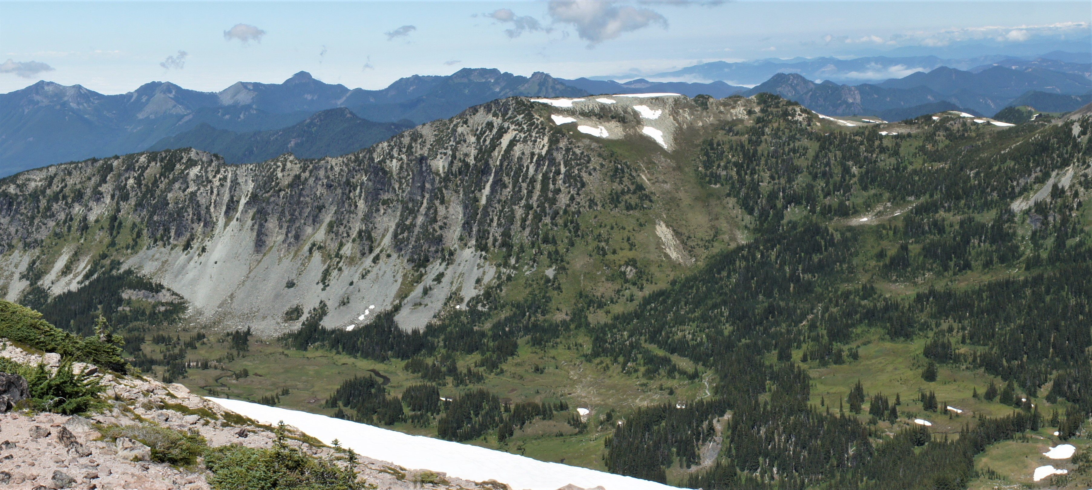 Crescent Mountain seen from Old Desolate